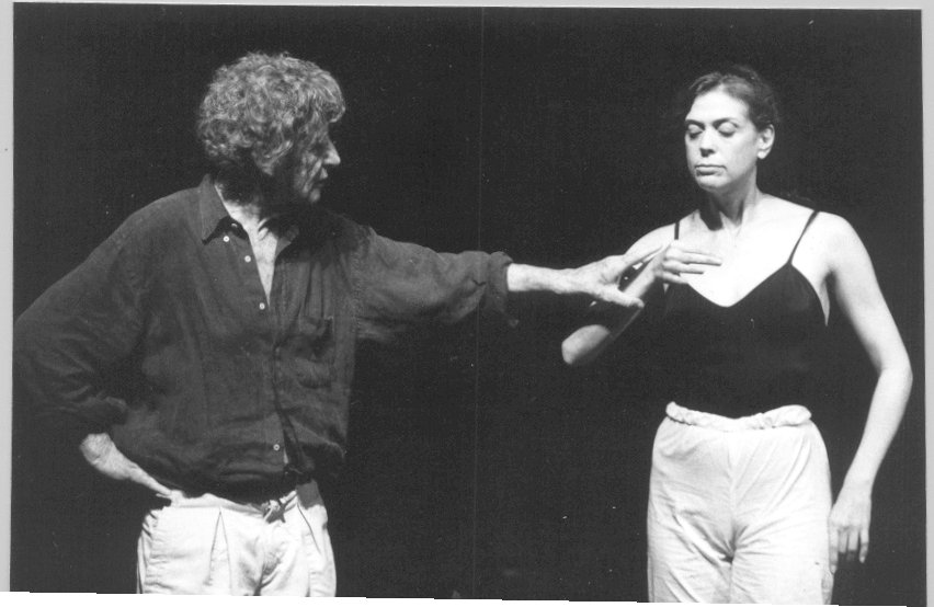 Janet Carafa directed by Marcel Marceau